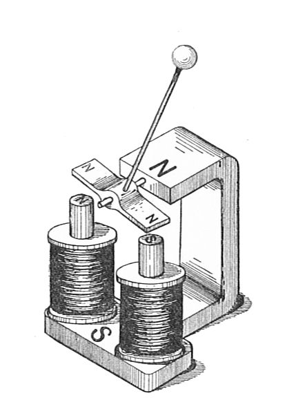 Polarised electric bell (Rankin Kennedy, Electrical Installations, Vol V, 1903).jpg